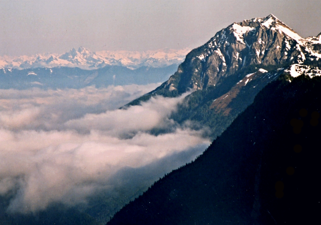 Mount McGuire seen from Keep Kool Butte in April 1994. North Cascade Mountains. Fraser Valley in the distance.